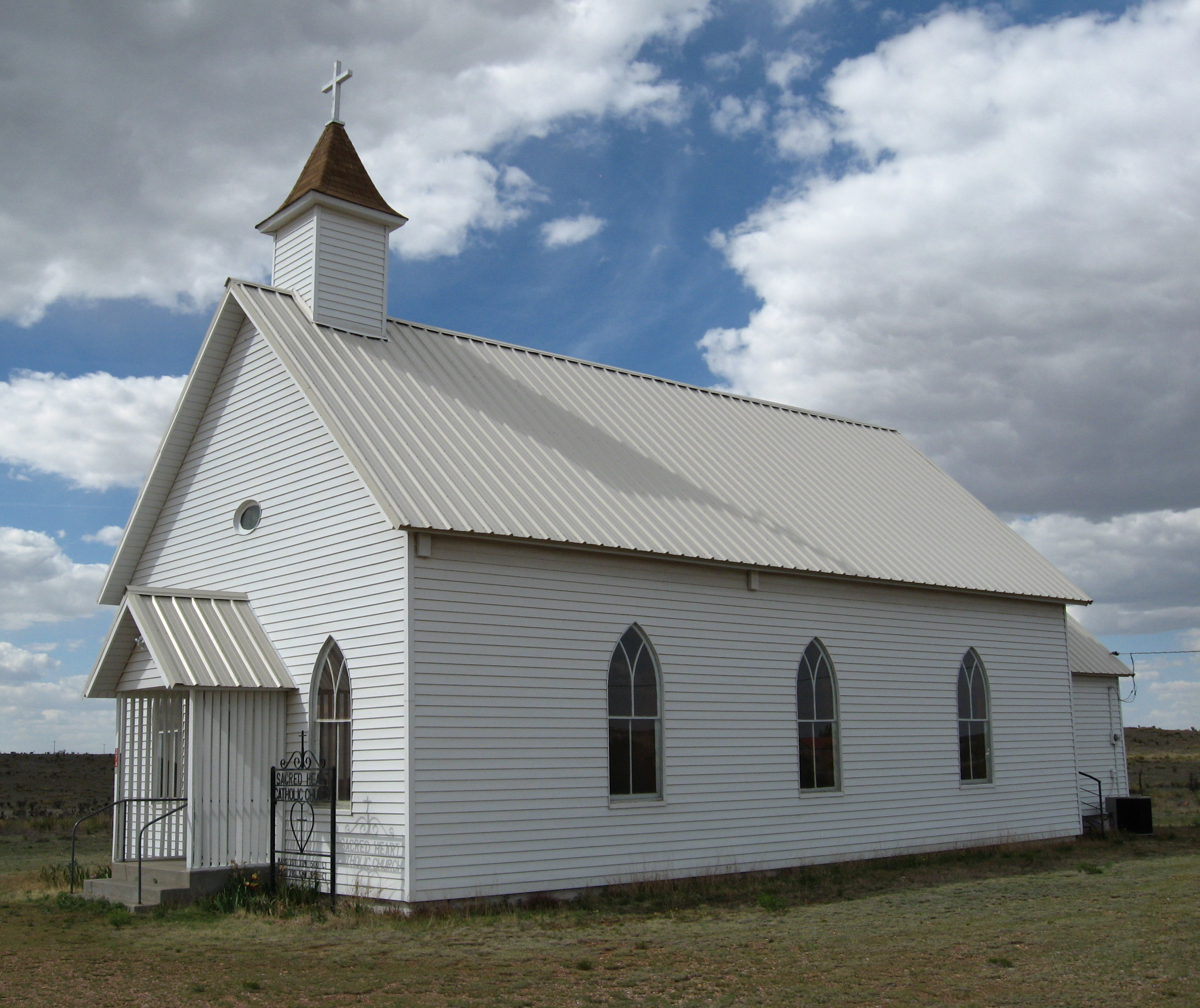 Catholic Church in Nara Visa, New Mexico, U.S.